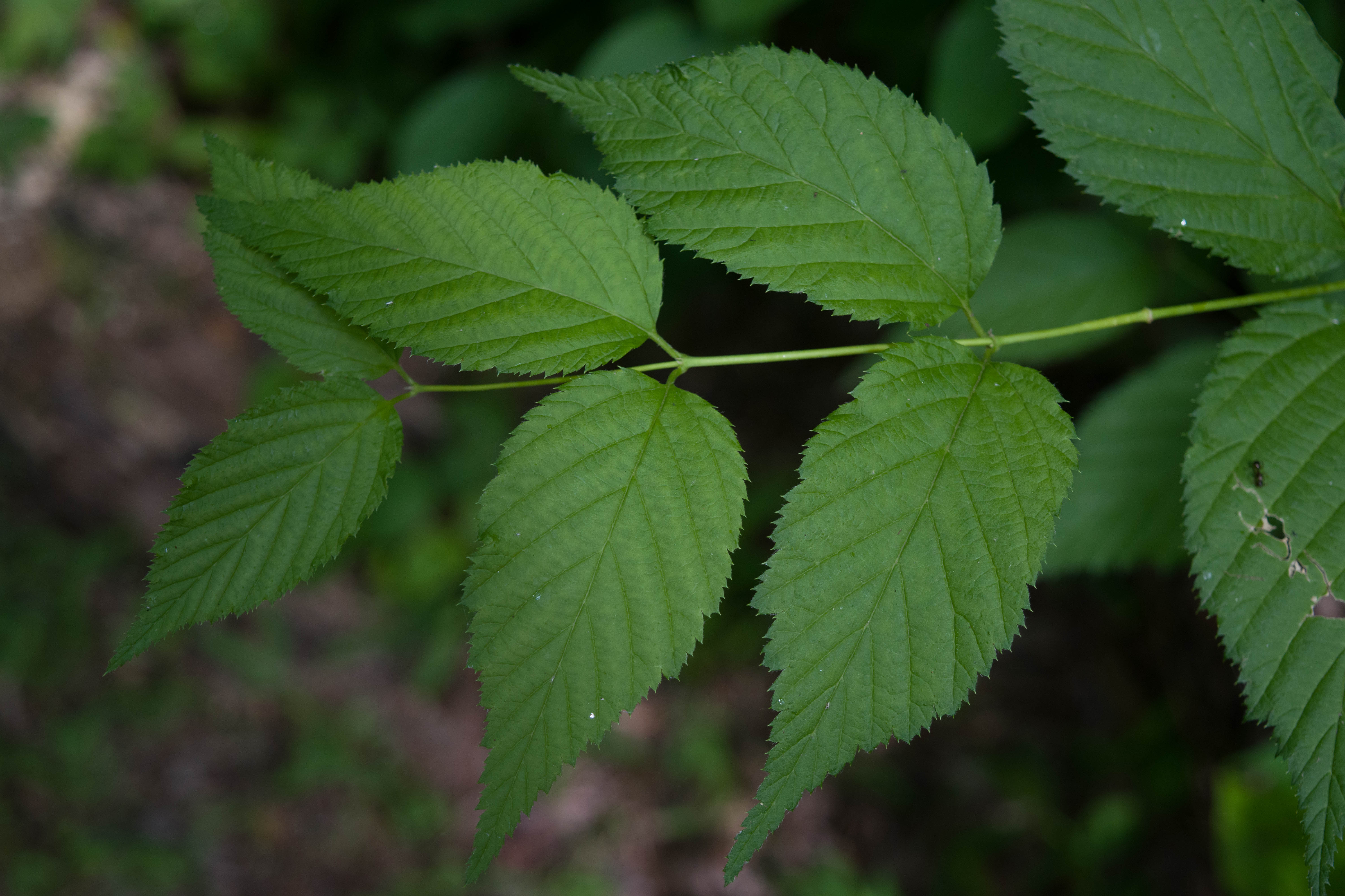 Taken in bucks county Pa